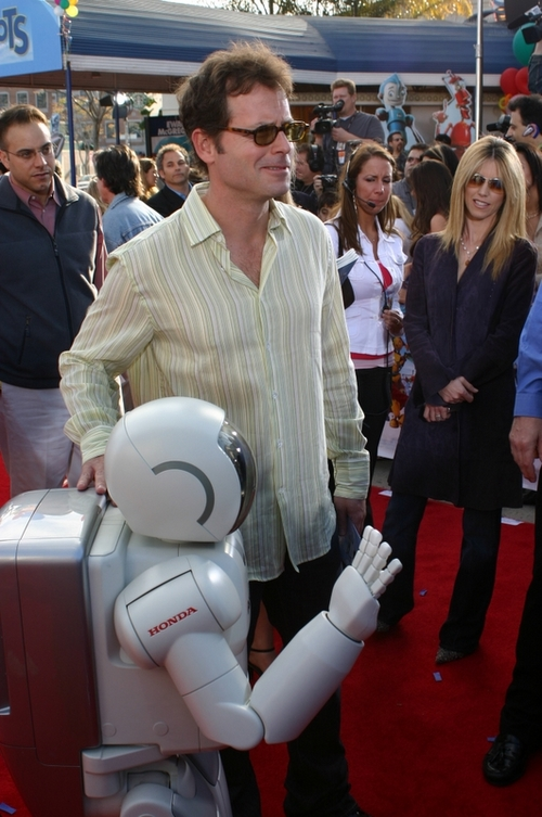 Greg Kinnear on the red carpet of the premiere of Robots